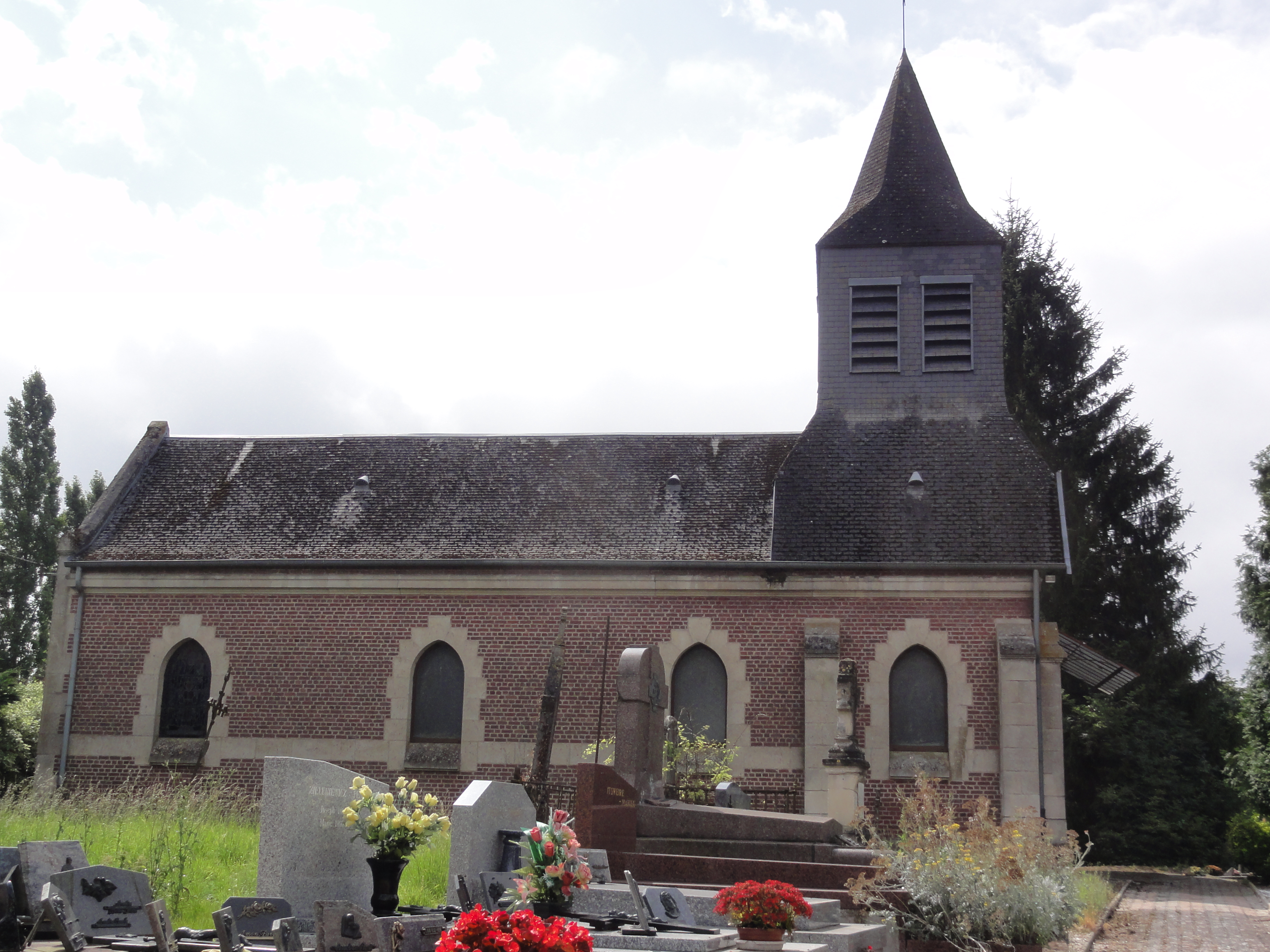 Lanchy (Aisne) église Saint-Médard